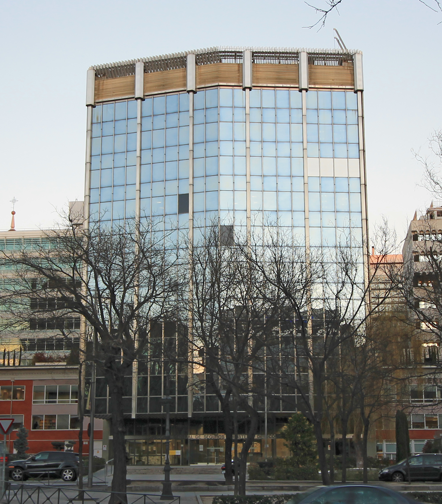 Headquarters of the General Directorate of Insurance and Pensions at 44 Paseo de la Castellana (avenue) in Madrid (Spain).